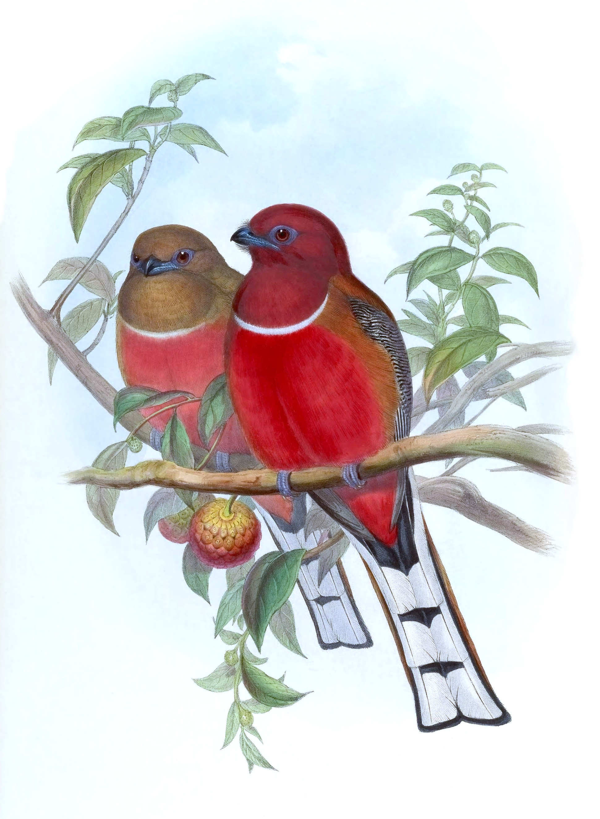 Red-headed Trogon Harpactes erythrocephalus (Gould)